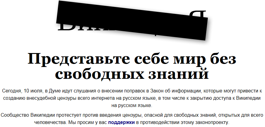 Russia Wikipedia was closed for the bill of Russian State Duma Bill 89417-6 on July 10, 2012.This is the unique screen displayed on every pages on that day.